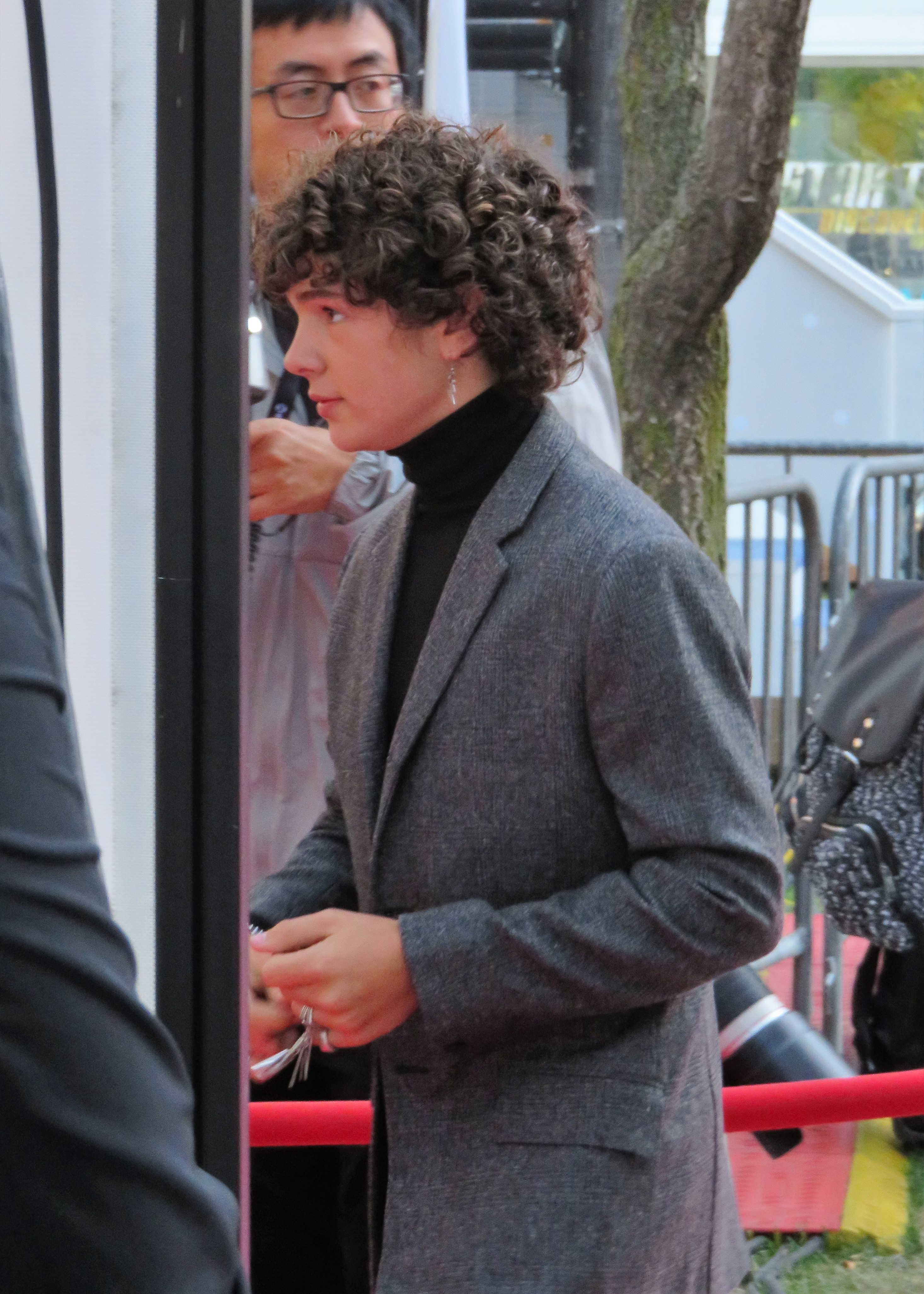 Noah Jupe at the premiere of Ford vs Ferrari, 2019 Toronto Film Festival